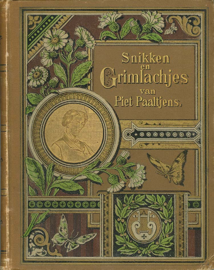 Photo of Snikken en grimlachjes a dutch poetry book from 1867